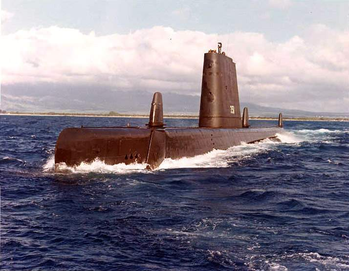 USS_Greenfish; Greenfish (SS-351) with the shark fin arrays with the standard BQG-4 PUFFS system. This photo was taken in the 1960's timeframe. Text courtesy of DANFS & QM2(SS) David Johnston, USNR. USN photo courtesy of .